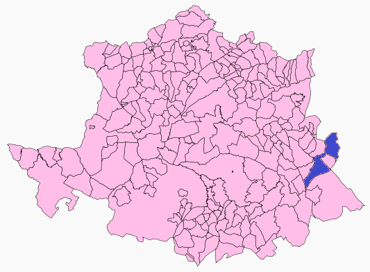 Villar del Pedroso